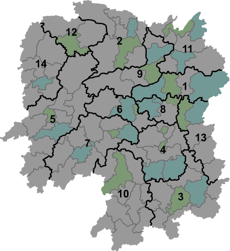 Map of prefectures of Hunan Province